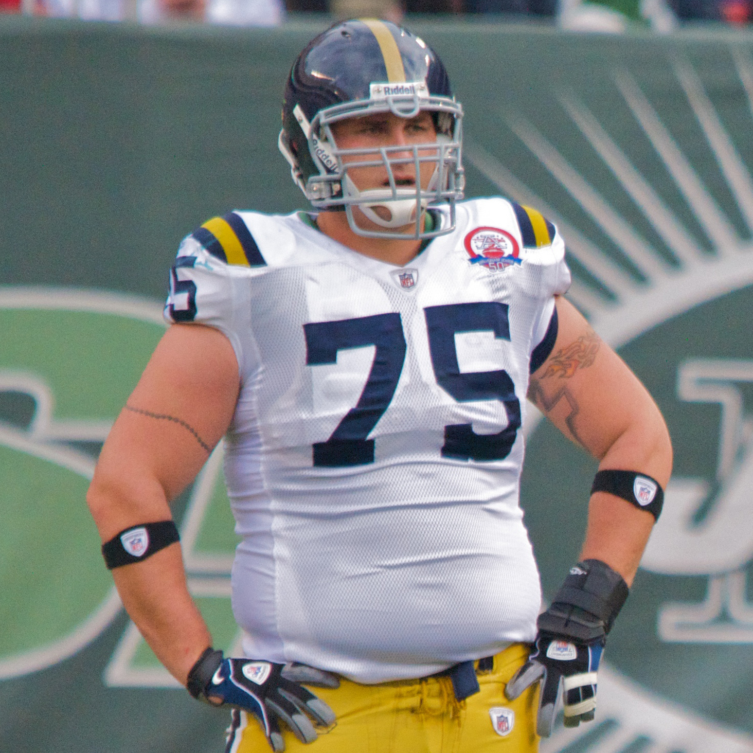 Offensive lineman Robert Turner (American football) of the New York Jets This file has been extracted from another file: Robert Turner Ben Hartstock Jets-Dolphin game, Nov 2009 - 058.jpg